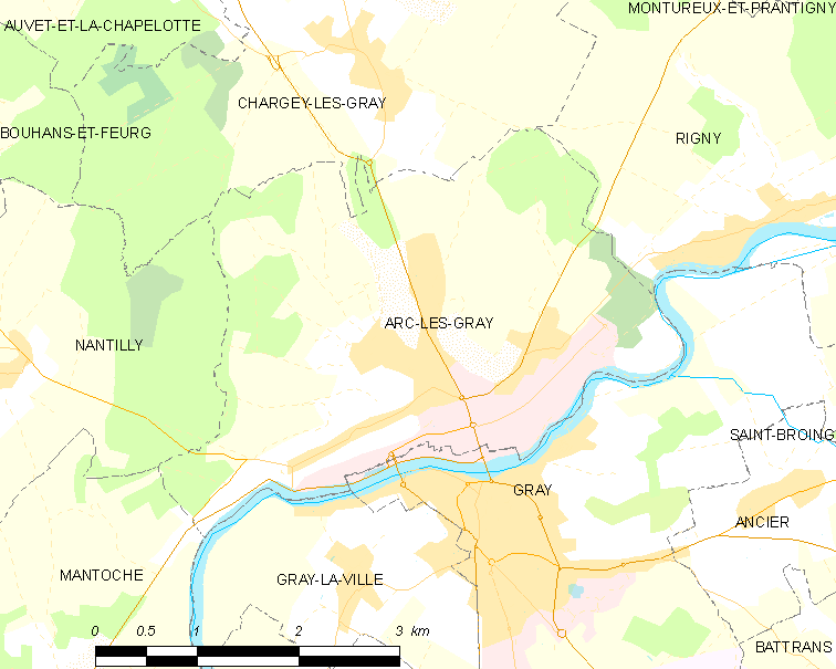 Map of French municipality